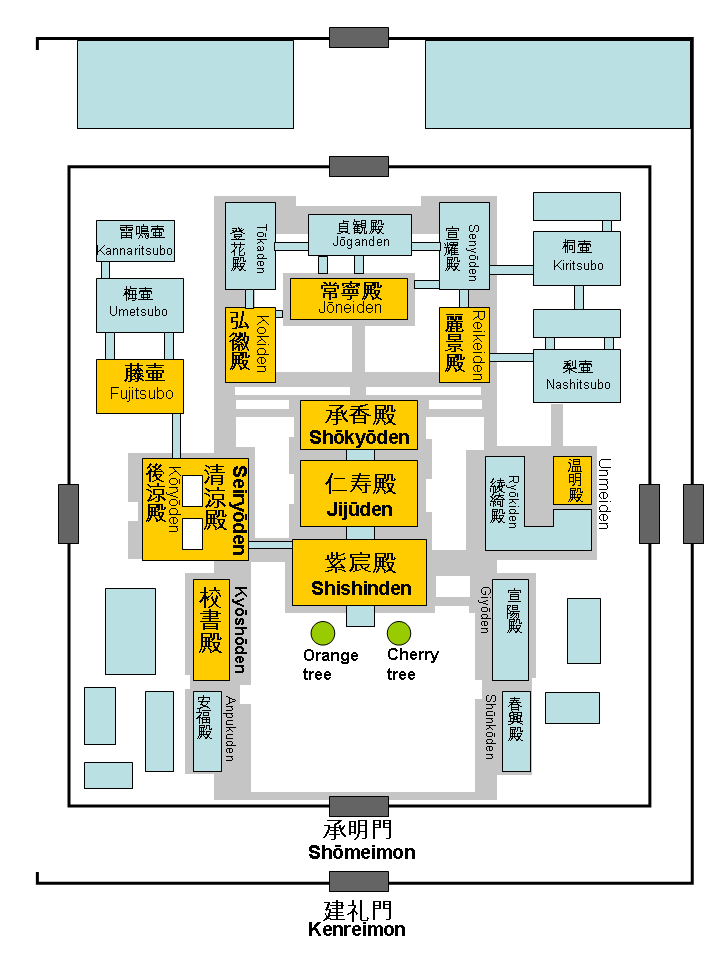 Schematic plan of the Inner Palace (Dairi) of the Heian Palace based on maps and plans in published work